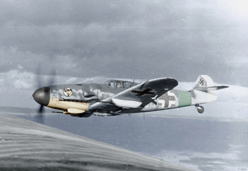 This is a retouched picture, which means that it has been digitally altered from its original version. Modifications: recolored. The original can be viewed here: Bundesarchiv Bild 101I-662-6659-37, Flugzeug Messerschmitt Me 109.jpg: . Modifications made by Ruffneck88. Flugzeug Messerschmitt Me 109 Photographer HebenstreitArchive description Description provided by the archive when the original description is incomplete or wrong. You can help by reporting errors and typos at Commons:Bundesarchiv/Error reports. Jagdflugzeug Flugzeug Messerschmitt Me 109 G-6 des Jagdgeschwader 27 (Jg 27) mit zwei MG 151/20 unter den Tragflächen im Flug; Eins Kp Lw zbVTitle Flugzeug Messerschmitt Me 109 Date 1943date QS:P571,+1943-00-00T00:00:00Z/9Collection German Federal Archives Native nameDas BundesarchivLocationKoblenz (headquarters)Coordinates50° 20′ 32.71″ N, 7° 34′ 21.22″ E Established1946Web page control : Q685753 VIAF: 137346469 ISNI: 0000 0004 0555 2728 LCCN: n92025526 NLA: 36455393 Open Library: OL55798A WorldCat institution QS:P195,Q685753Current location Propagandakompanien der Wehrmacht - Heer und Luftwaffe (Bild 101 I)Accession number Bild 101I-662-6659-37 Source This image was provided to Wikimedia Commons by the German Federal Archive (Deutsches Bundesarchiv) as part of a cooperation project. The German Federal Archive guarantees an authentic representation only using the originals (negative and/or positive), resp. the digitalization of the originals as provided by the Digital Image Archive.